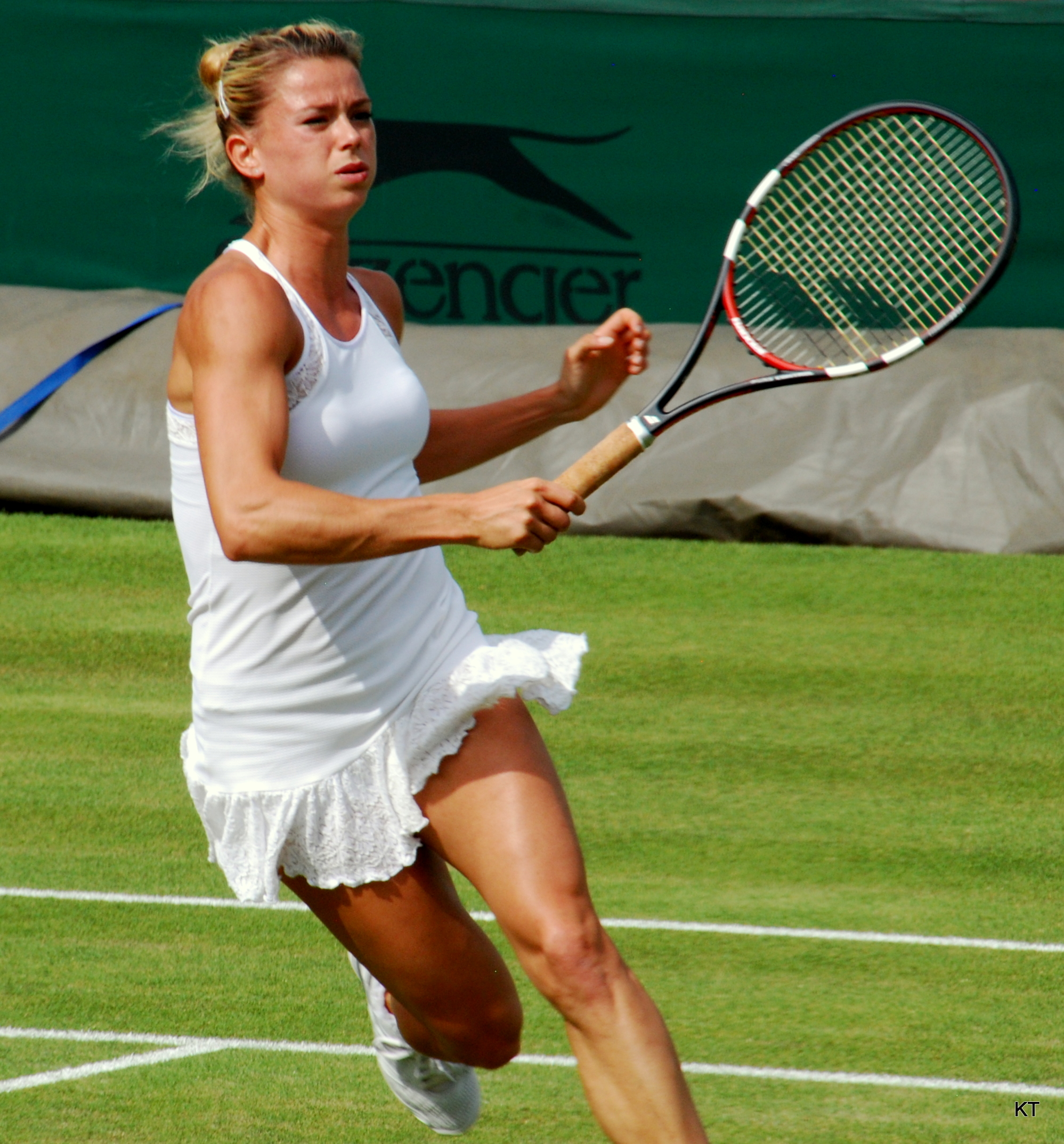 Day 4 of Wimbledon 2014.